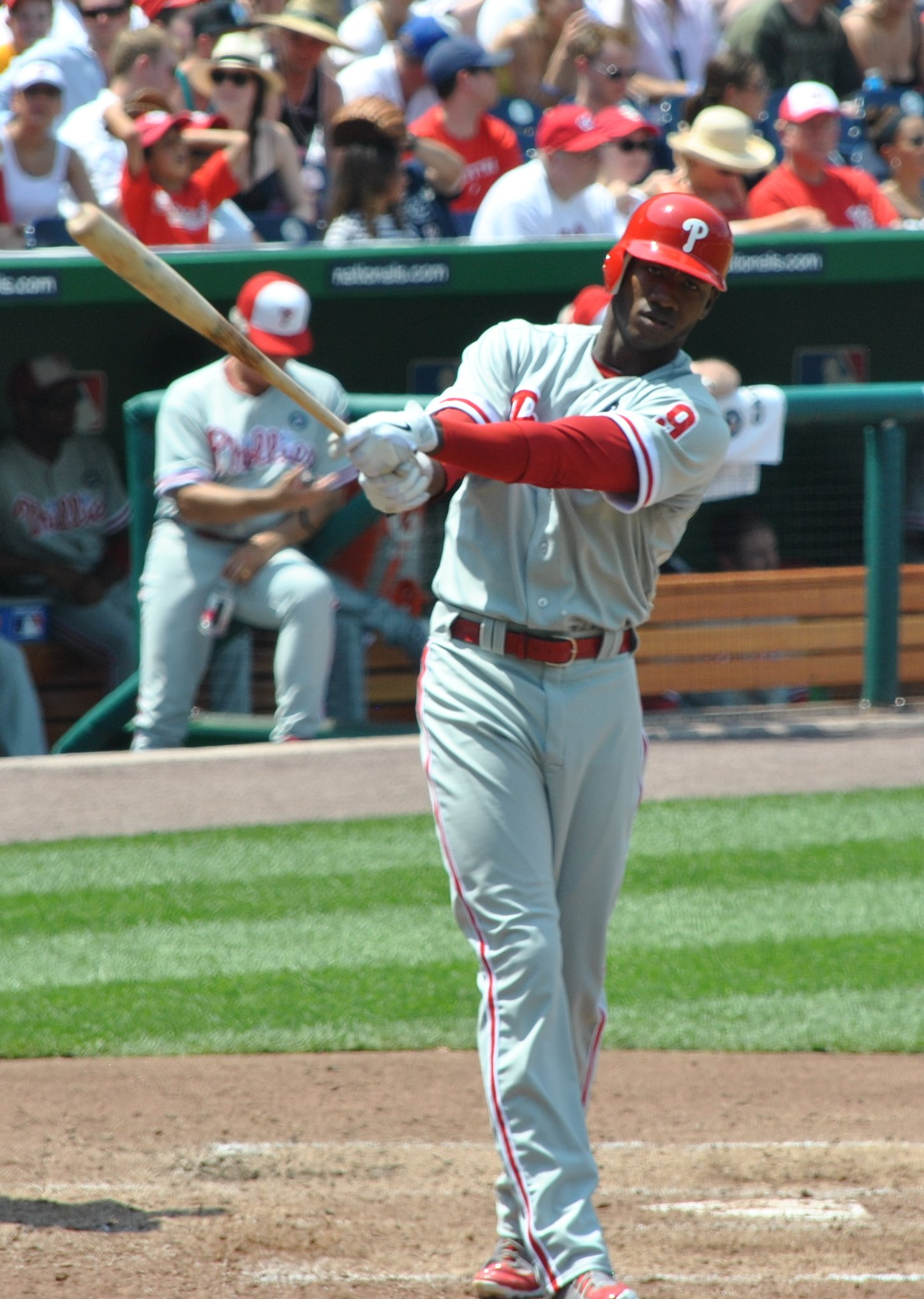 Domonic Brown warming up for the Phillies in 2011.